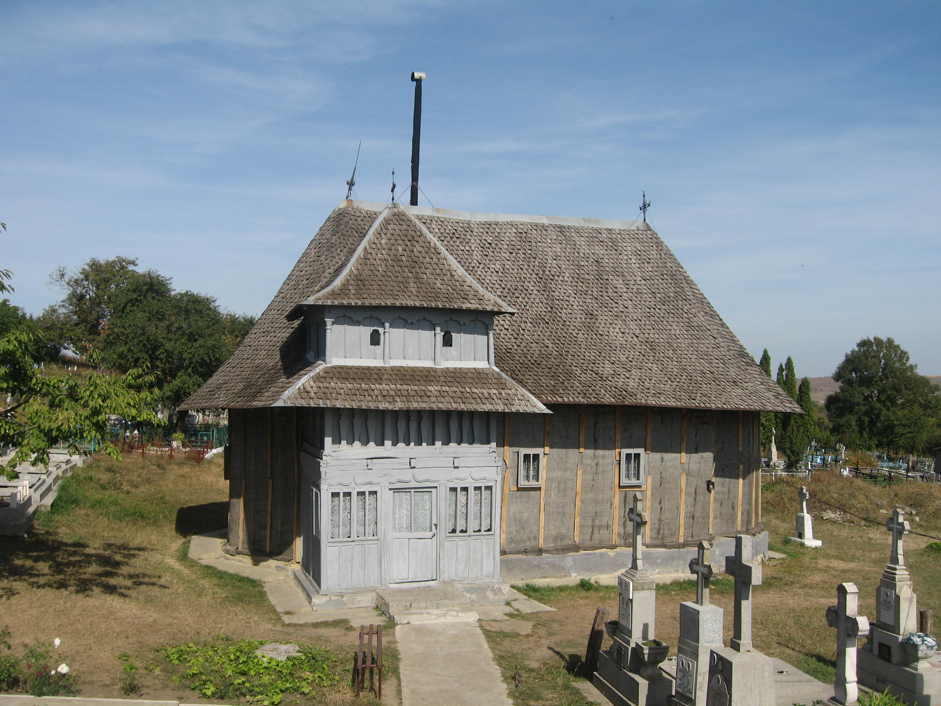 Biserica de lemn din Popeşti